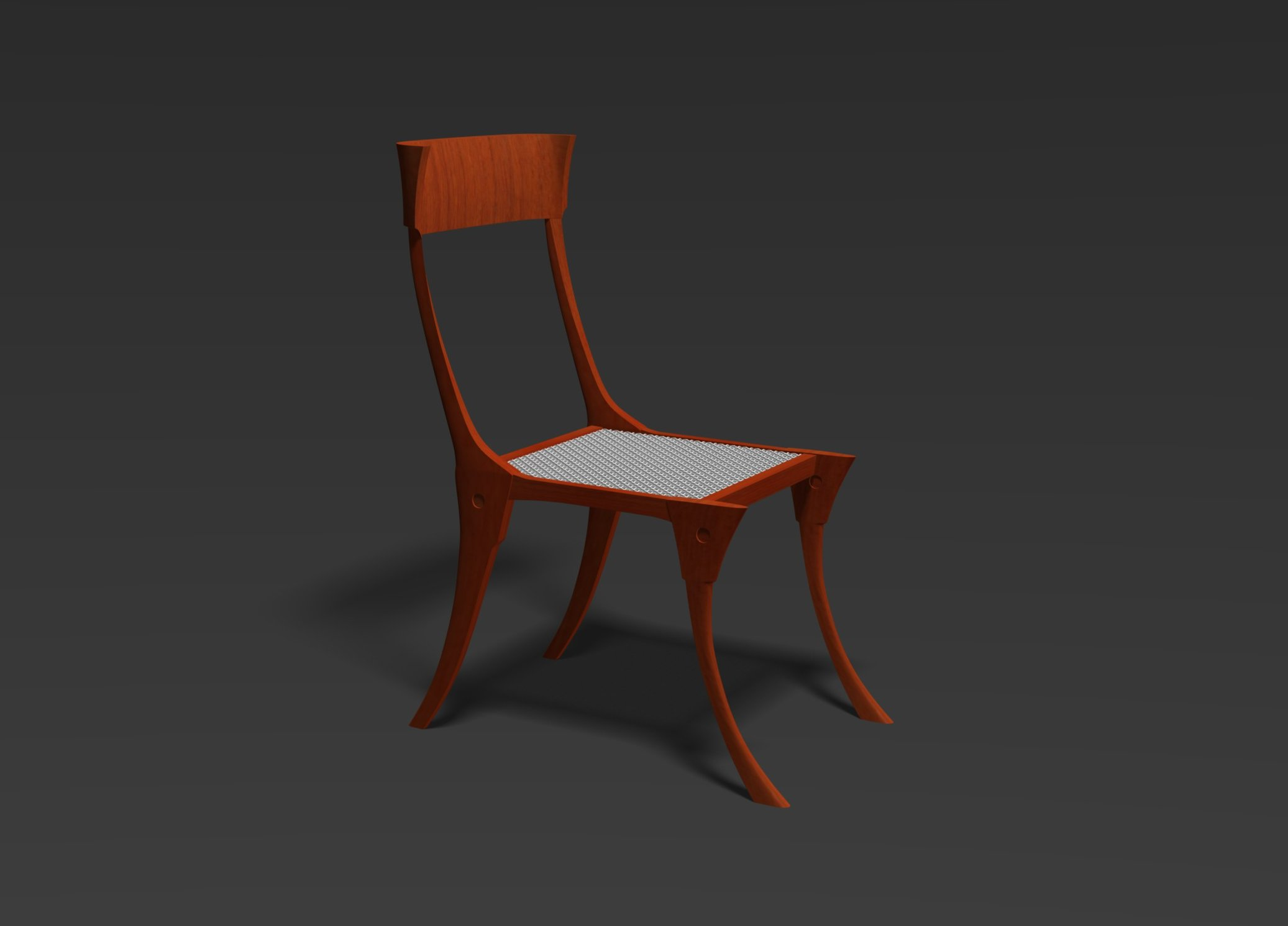 Ancient Greek Chair